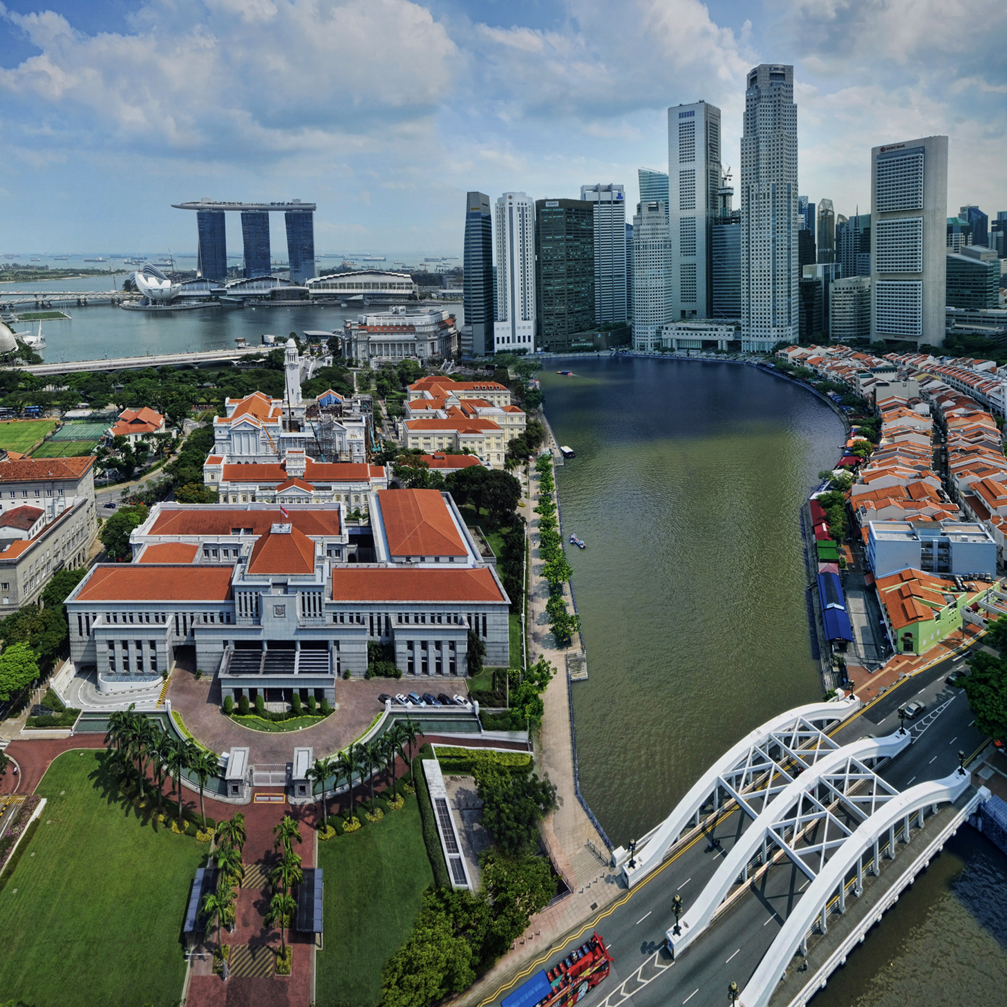 An aerial view of the Singapore River.